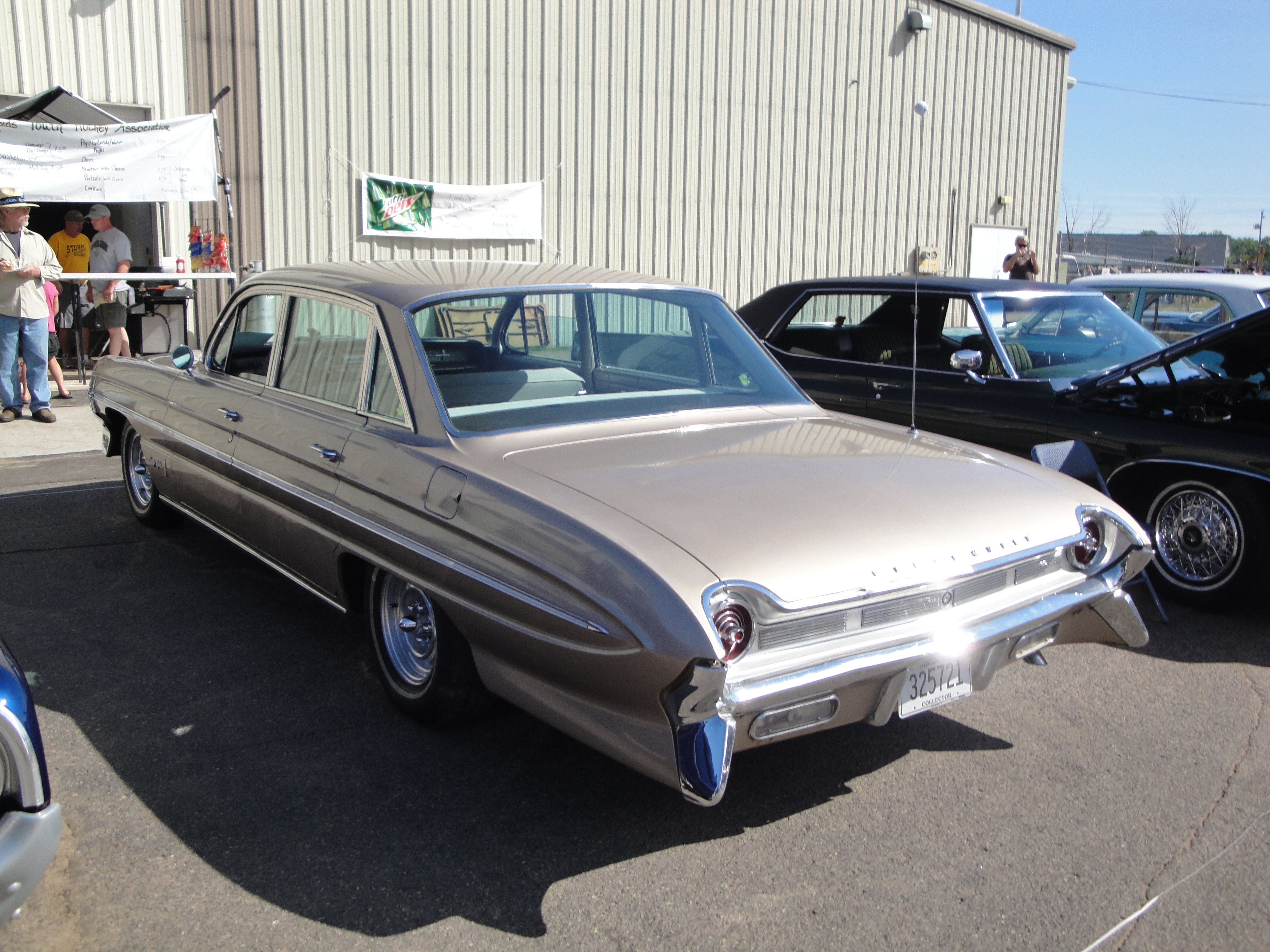 View On Black The Pantowners Annual Car Show and Swap Meet Sunday August 21, 2011